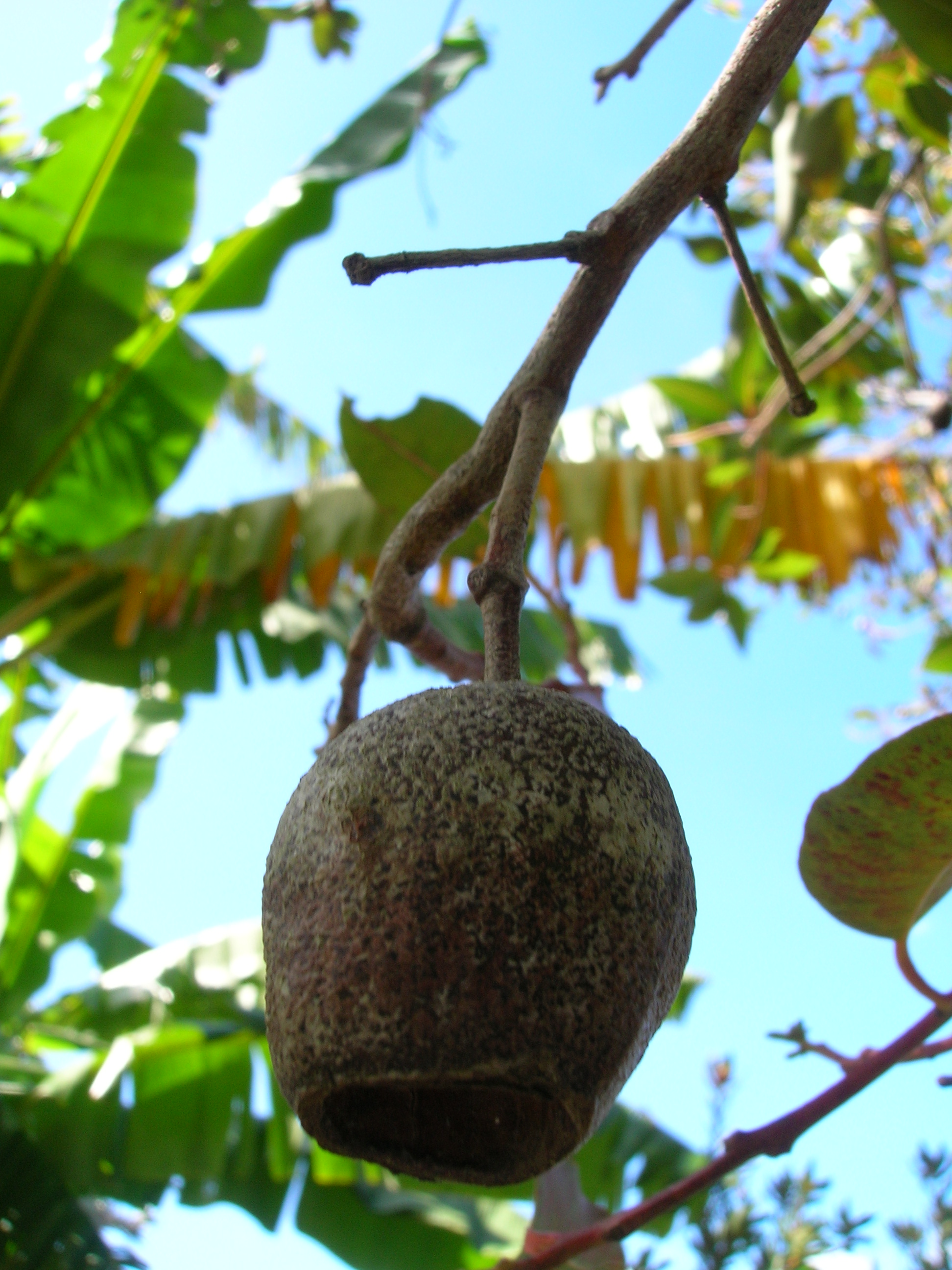 Corymbia ficifolia (capsule). Location: Maui, Enchanting Floral Gardens of Kula